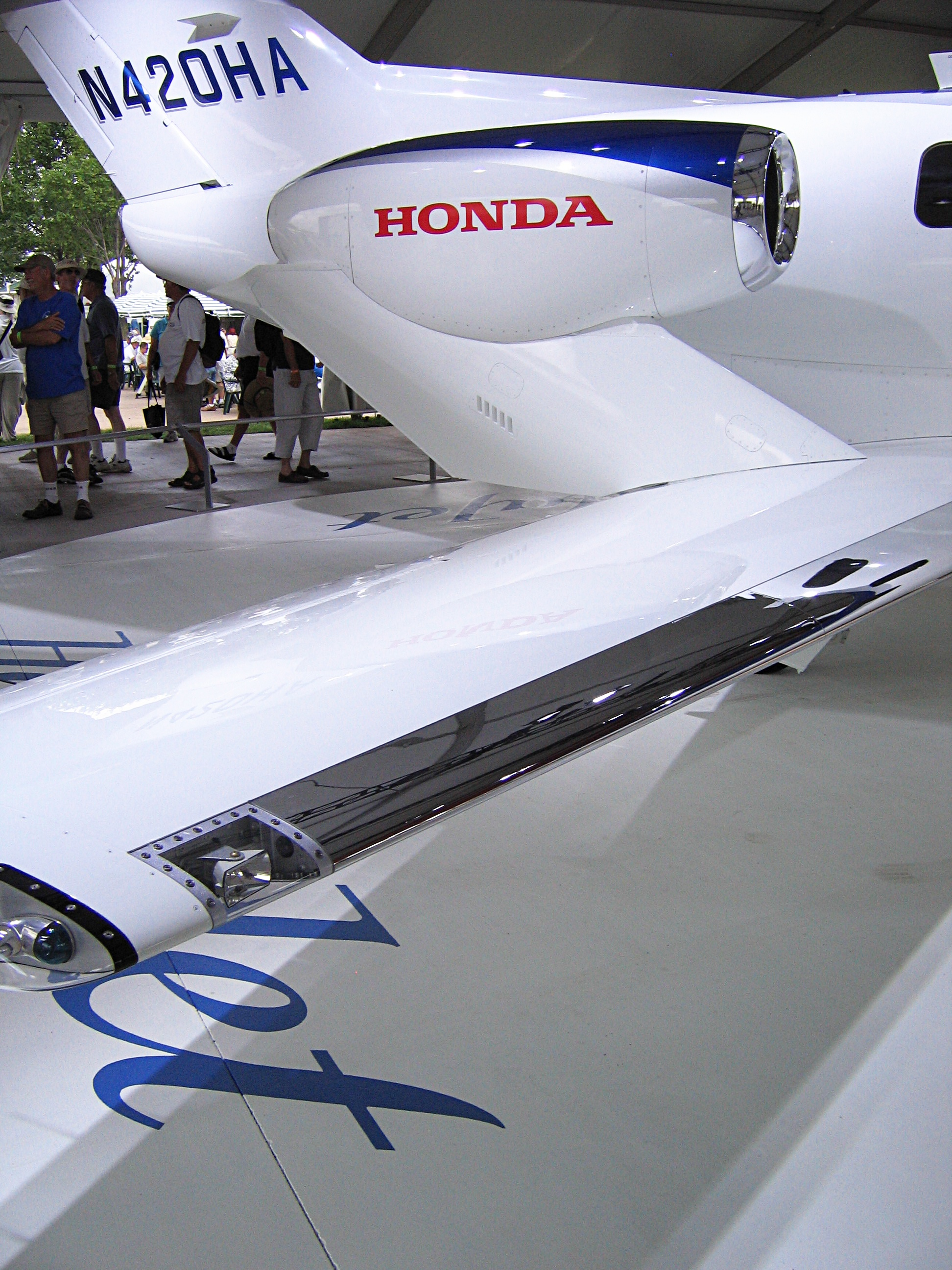 HondaJet, Right wing and the engine pod.